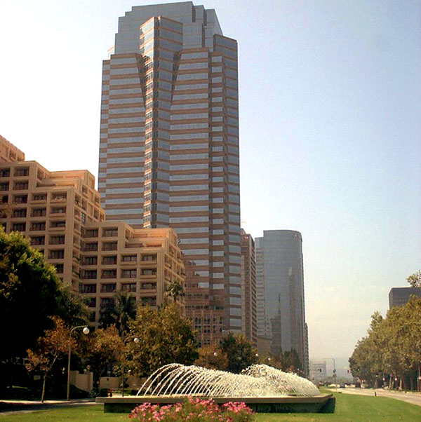 The Fox Plaza, in Century City a major financial district for West Los Angeles. From English Wikipedia